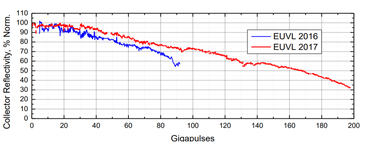 The EUV collector reflectivity drops ~10% within 10 Gpulses (~1 day @50kHz).